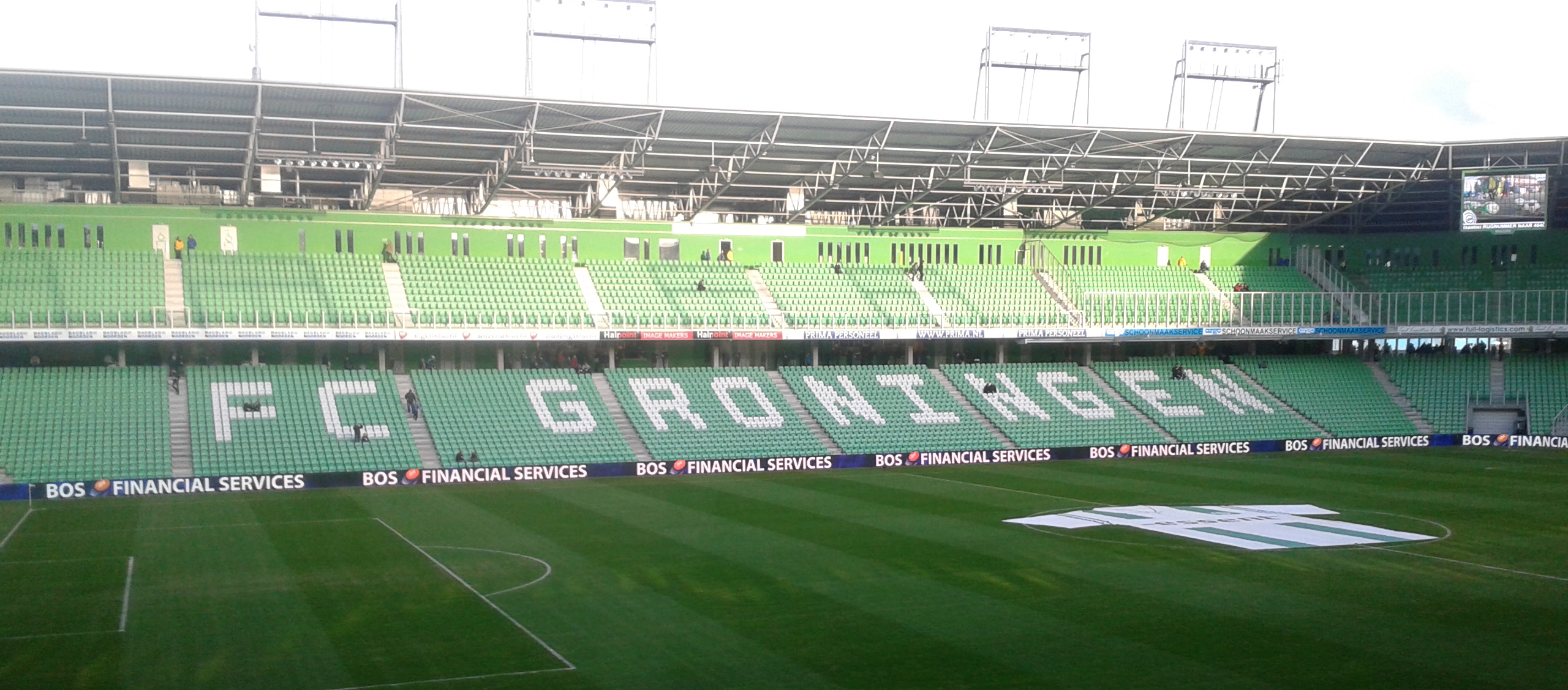 The Euroborg in Groningen. FC Groningen 3-1 Vitesse Arnhem. 22 March 2014.